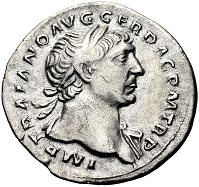 Denarius featuring emperor Trajan